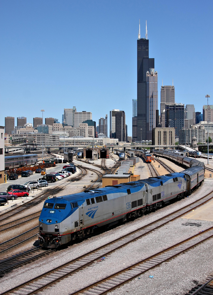 In a quintessential Chicago shot, Amtrak #49, the Lake Shore Limited, backs in to Union Station. Note the 261 cars on the tail of Amtrak #7 just above the second loco in the consist. It's about 1100 on 5/17/09.